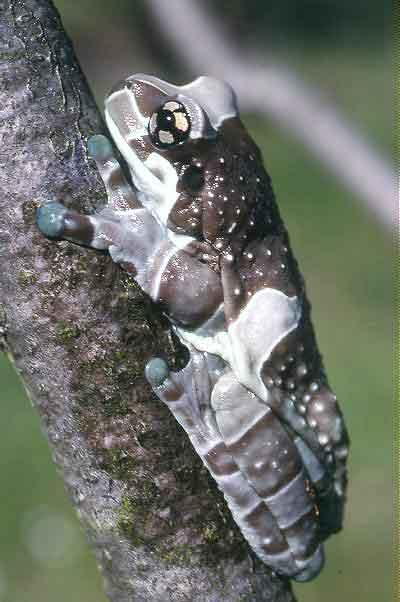 Trachycephalus resinifictrix